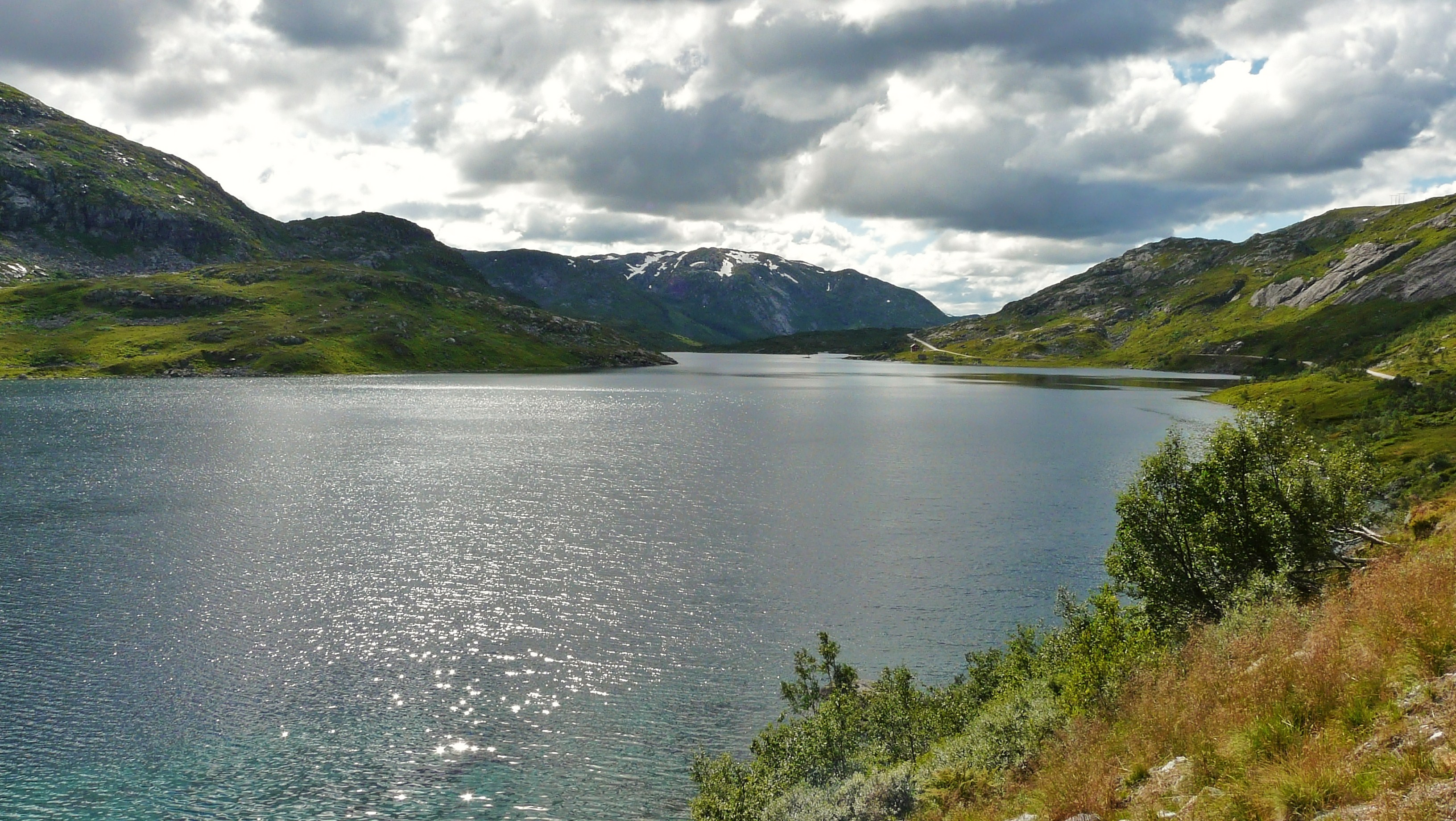 Nystølsvatnet as seen from the Riksvei 13 road by the northern coast of the lake in 2008 August. The camera is heading towards west during the take of this photograph.